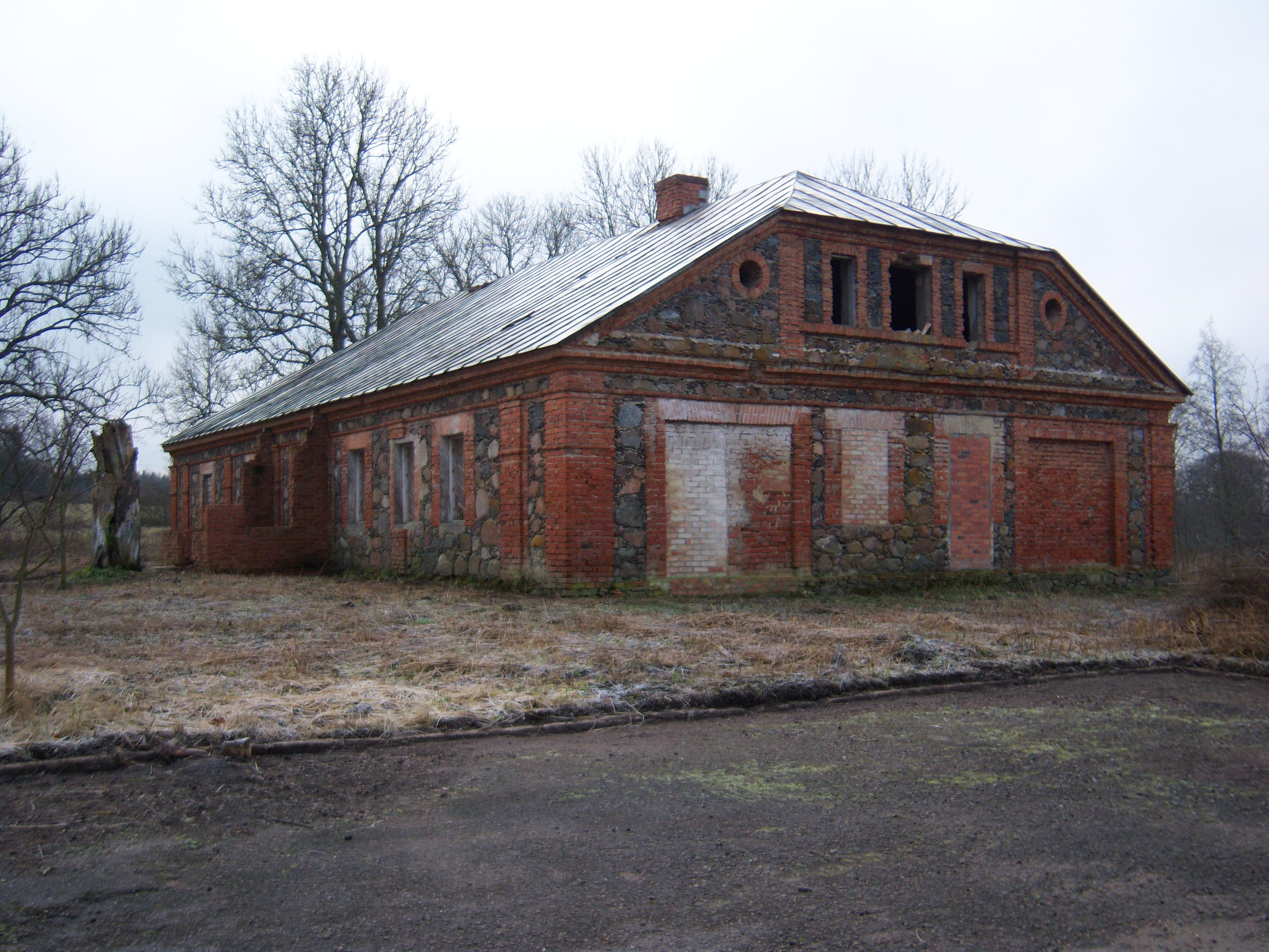 Tytuvėnėliai manor, Kelmė District, Lithuania